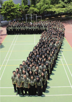 Formation 2014 Alumni of sman 7 tangerang